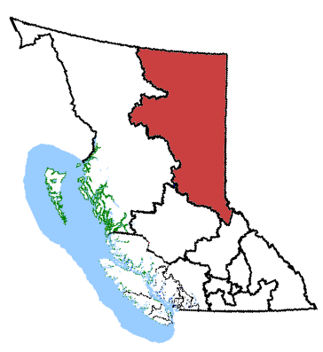 Map of the Prince George—Peace River electoral district. Based on Earl Andrew's maps, created by SimonP.